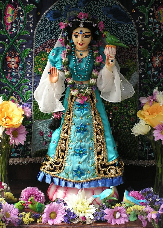 Photograph taken of Vrindadevi (Tulsi) deity for use in Tulsi article. GourangaUK 20:53, 3 August 2006 (UTC)